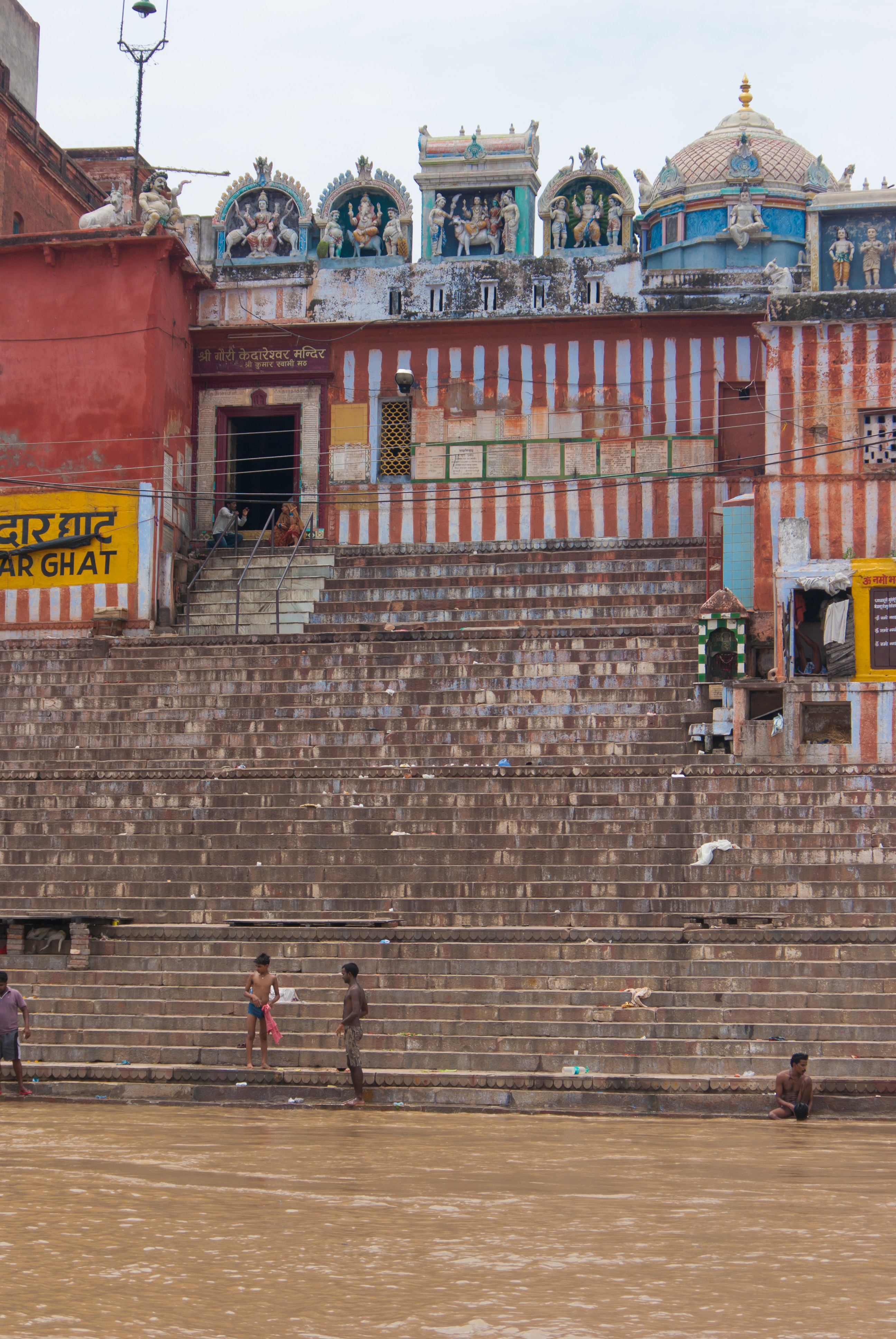 Ghats in Varanasi